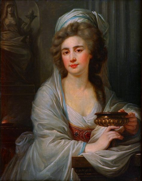 Portrait of Countess Zofia Potocka-Witt (1760-1822)